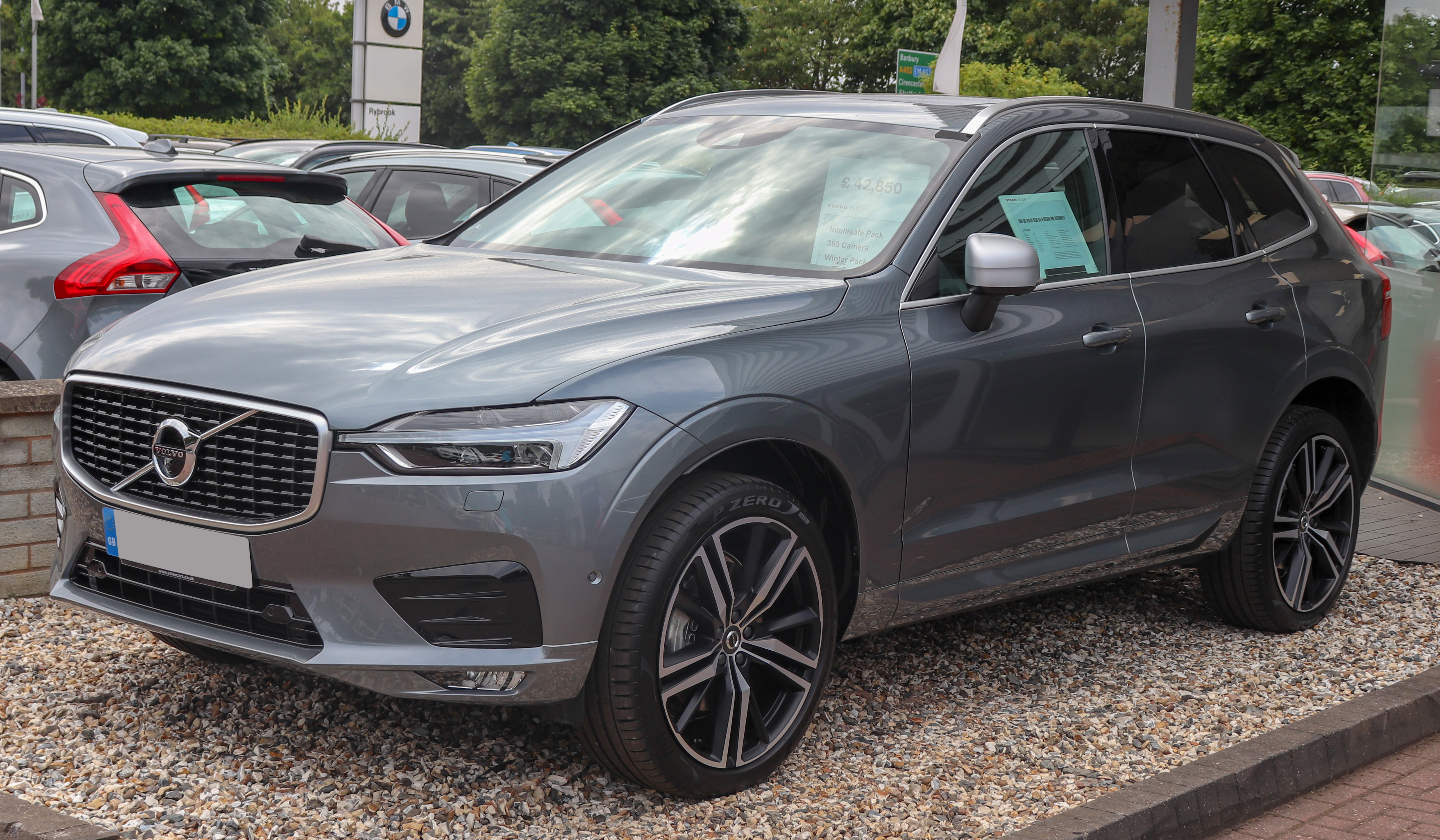 2018 Volvo XC60 R-Design PRO D4 AWD 2.0 Taken in Leamington Spa